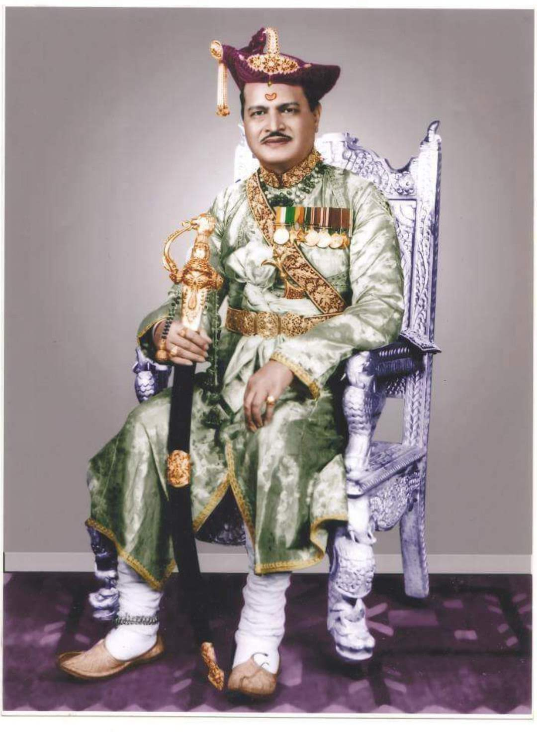 जव्हार रियासत